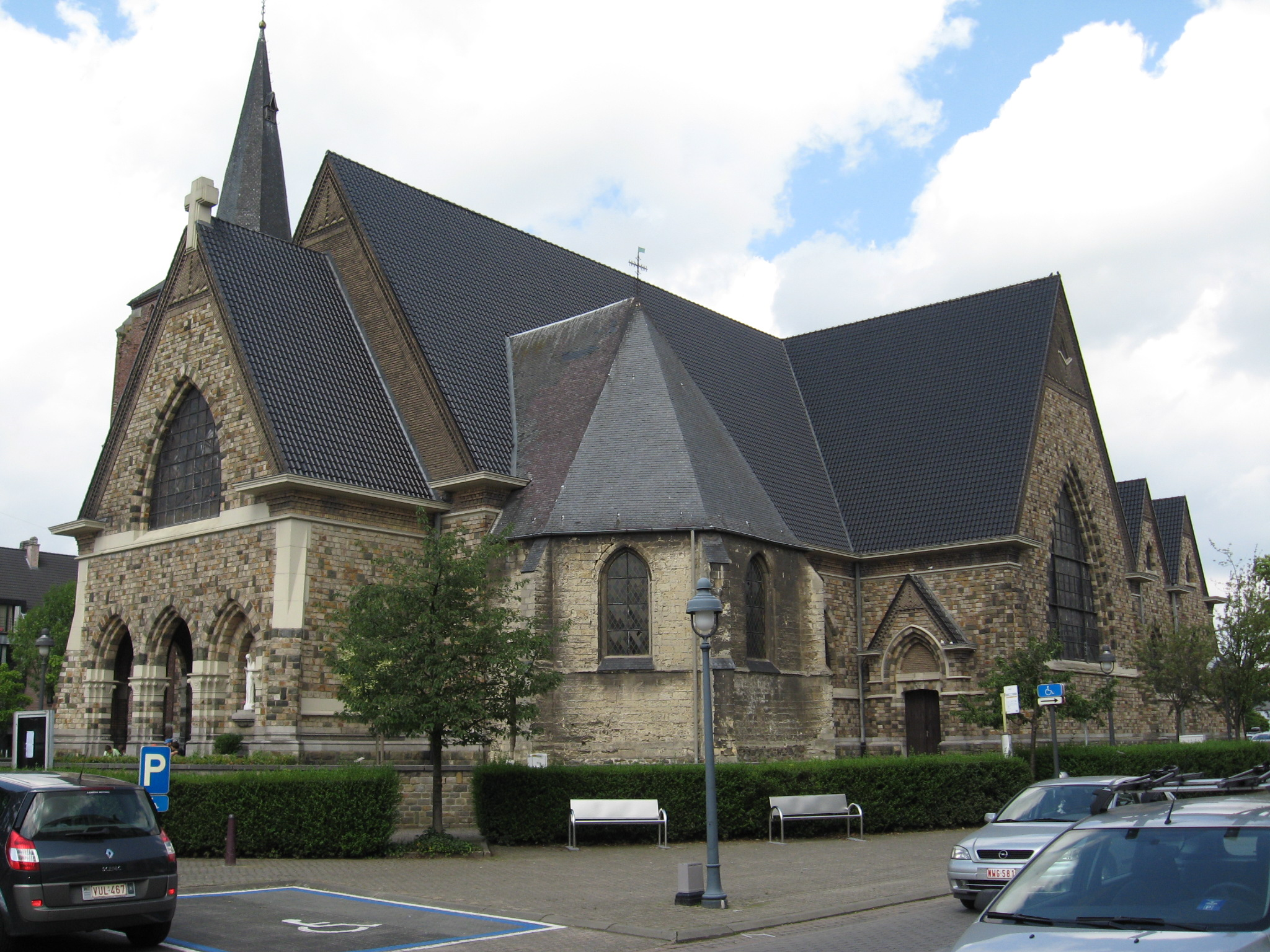 Church of Saint Martin in Houthalen, Houthalen-Helchteren, Limburg, Belgium